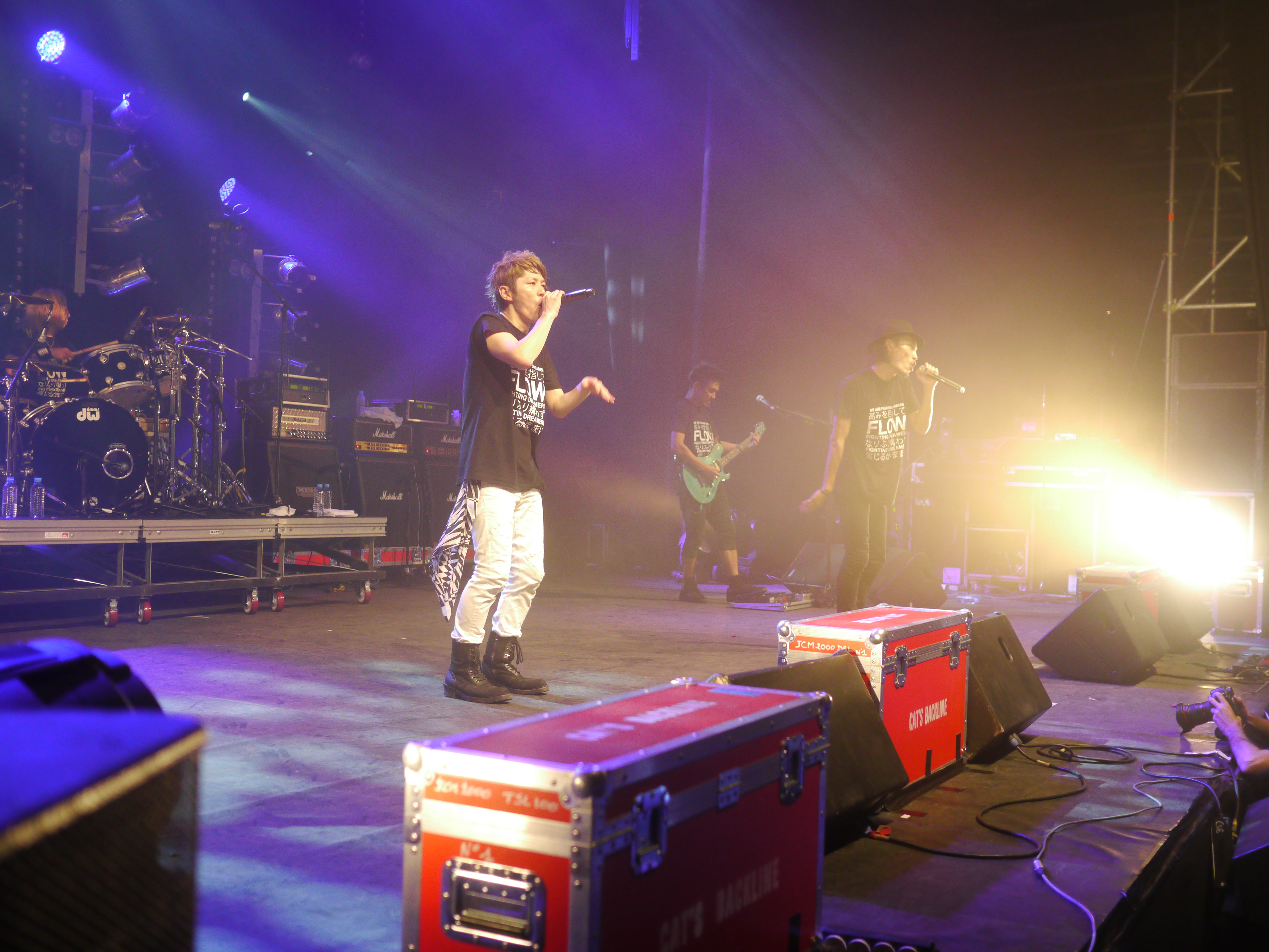 Concert of Flow organised by SoundLicious during the Japan Expo Festival in 2012.